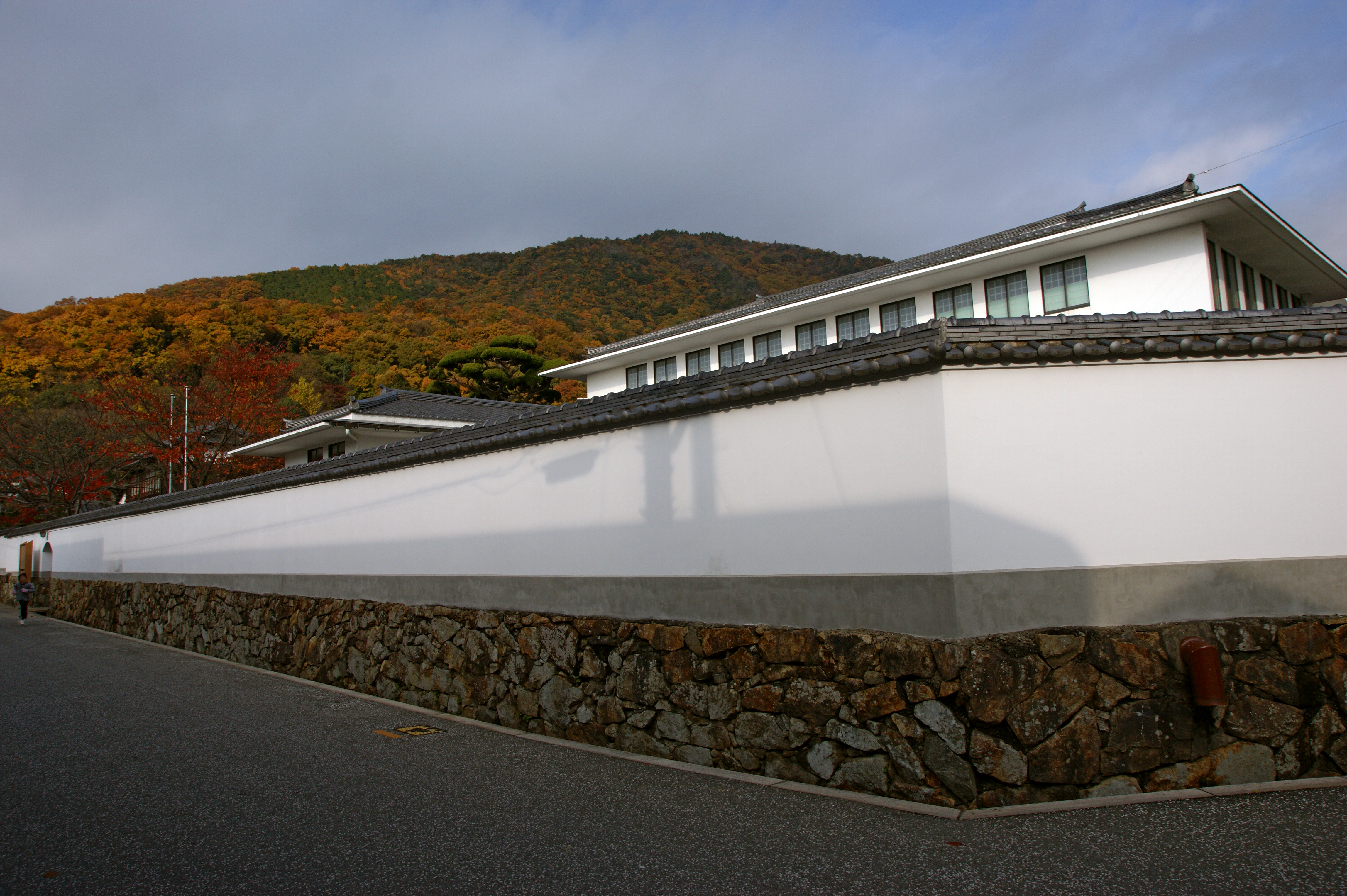 Kajokan, Tatsuno, Hyogo prefecture, Japan